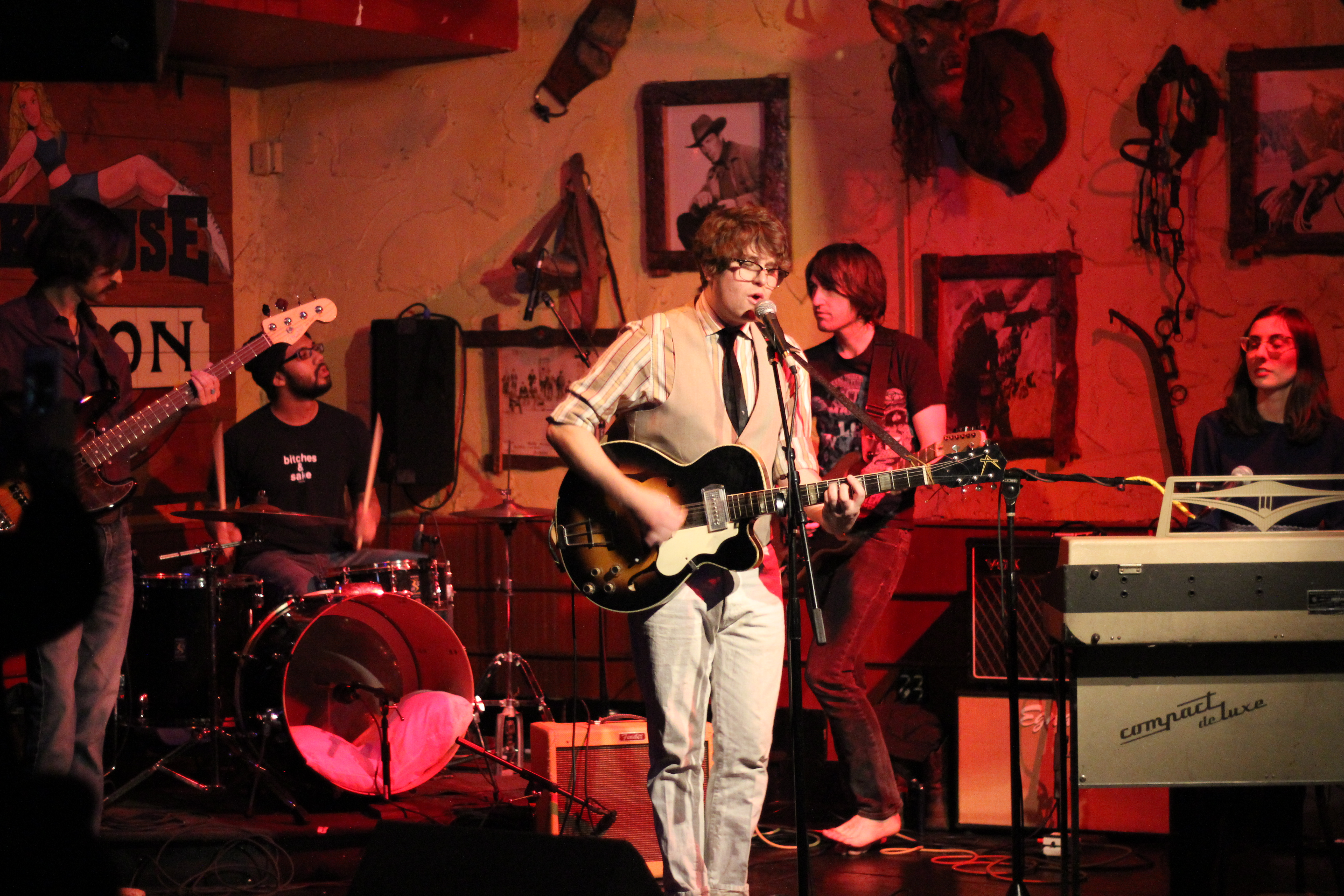 Same Sex Mary Performs at the Bunkhouse in Las Vegas Nevada